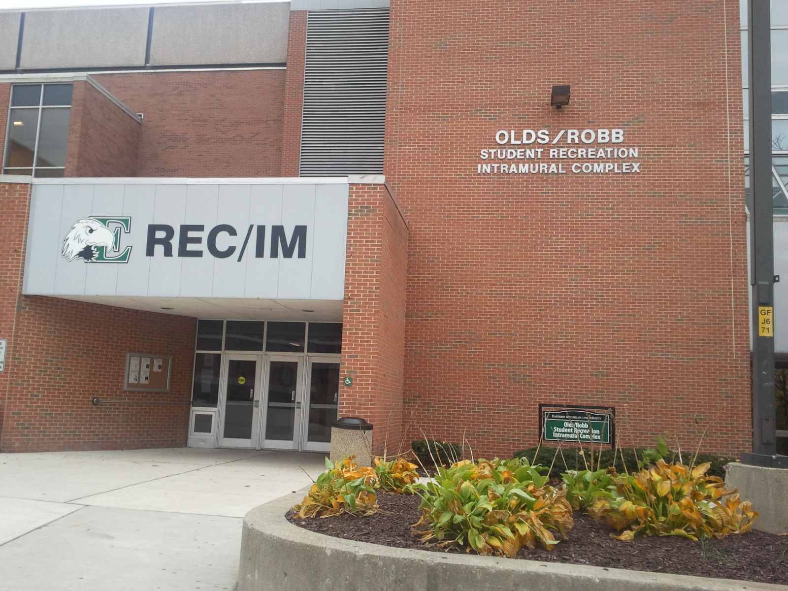 Main entrance to the Olds-Robb Recreation-Intramural Complex ("Rec/IM") at Eastern Michigan University.